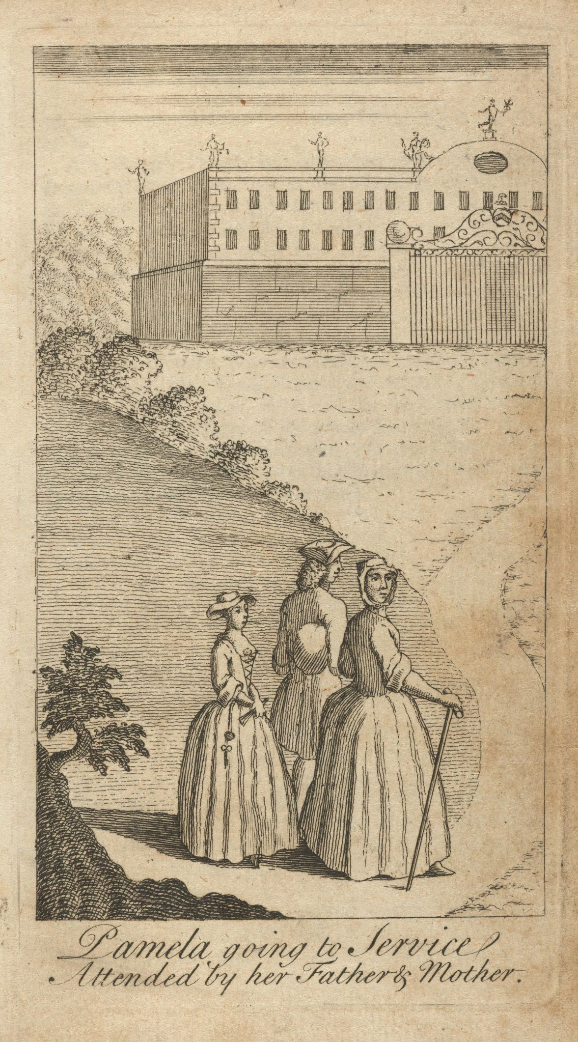 Illustration from Pamela: or, Virtue Rewarded, 1741, by Samuel, Richardson (1689-1761). This edition, printed in London for Mary Kingman in 1741, was a pirated edition, though it was the first to include illustrations of the popular book. *EC7 R3961P 1741g, Houghton Library, Harvard University